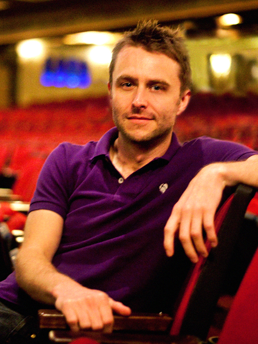 Was super happy to meet Chris Hardwick at the Palace Theatre in Louisville, KY as he was performing with Joel McHale on a mini midwest comedy tour.